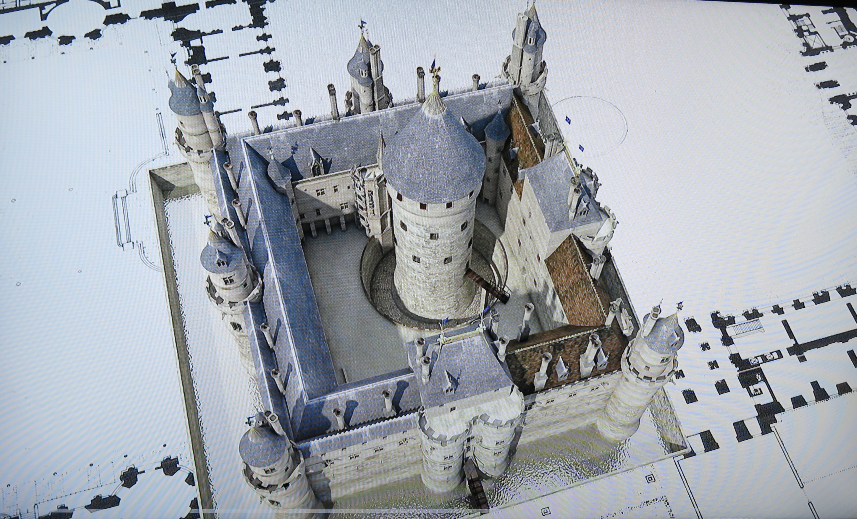 The castle of Louvre after the transformations by the King Charles V.